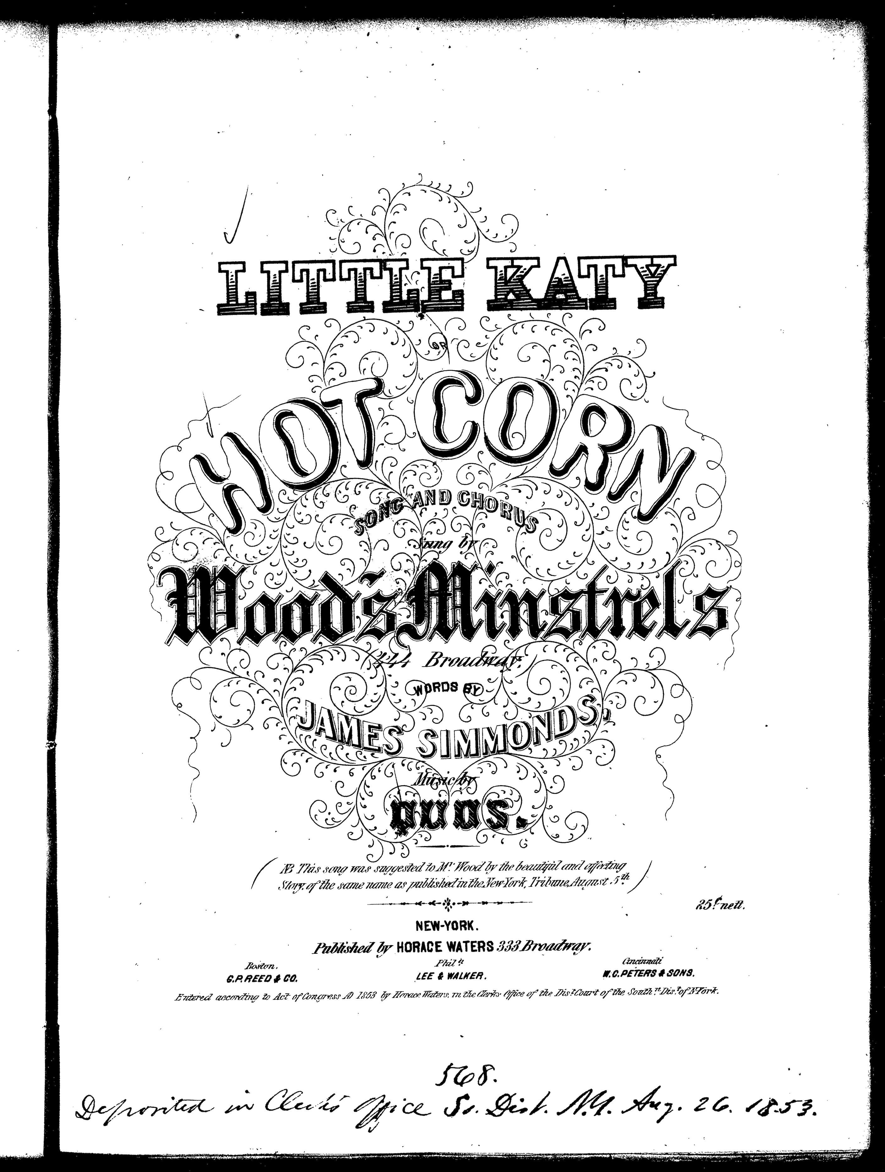 Scan of sheet music cover.